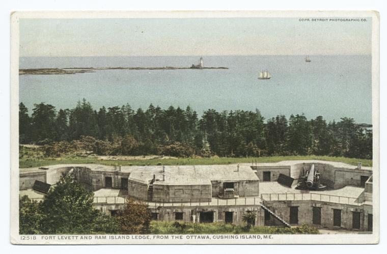 Fort Levett (Battery Bowdoin) and Ram Island Ledge Light from the Ottawa House hotel, Cushing Island, Maine, 1908-1909. Detroit Publishing Company Postcards in the Leonard Lauder Postcard Collection, New York Public Library Digital Gallery.